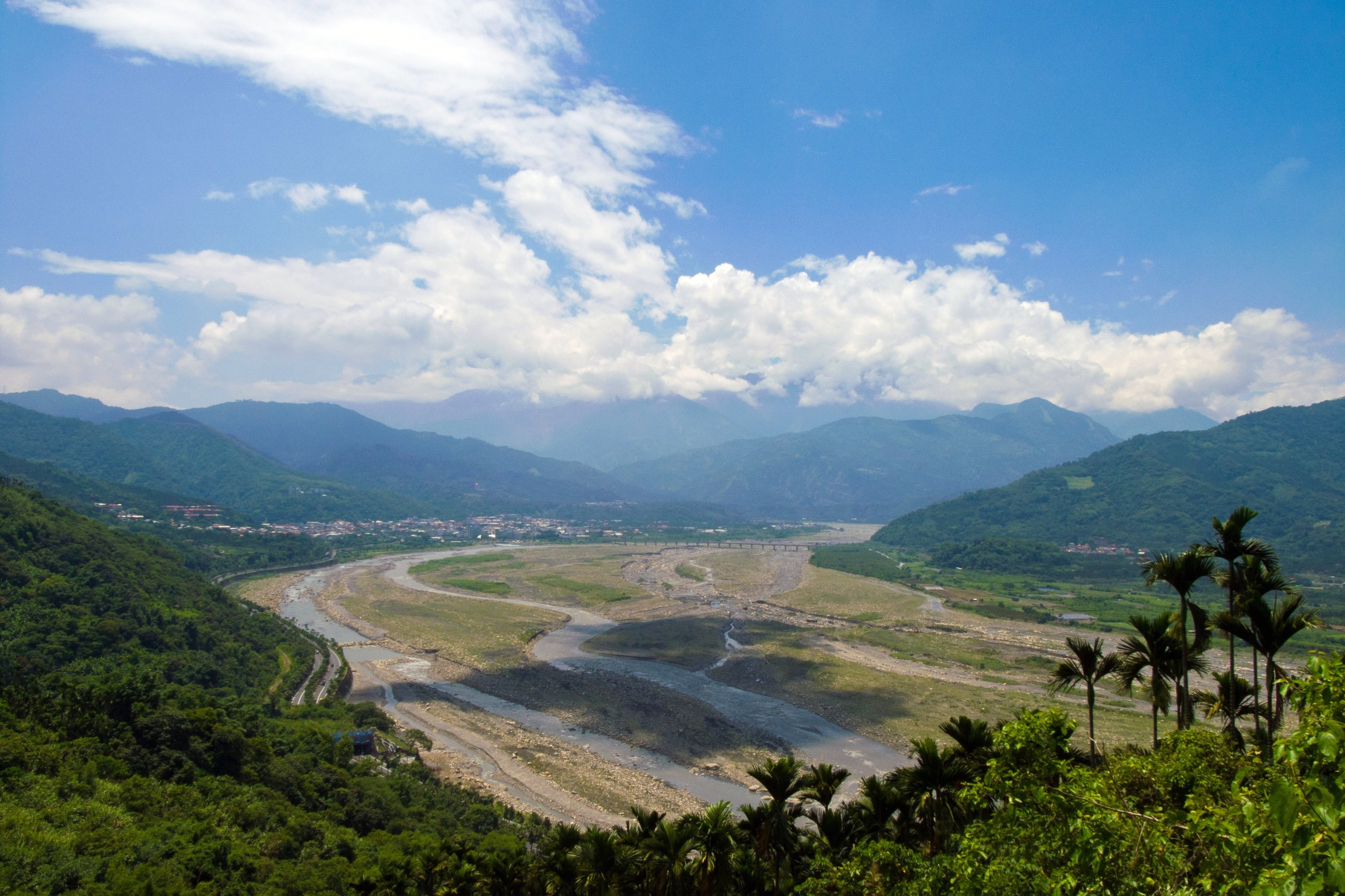 View along the Zhuoshui River valley to Shuili.